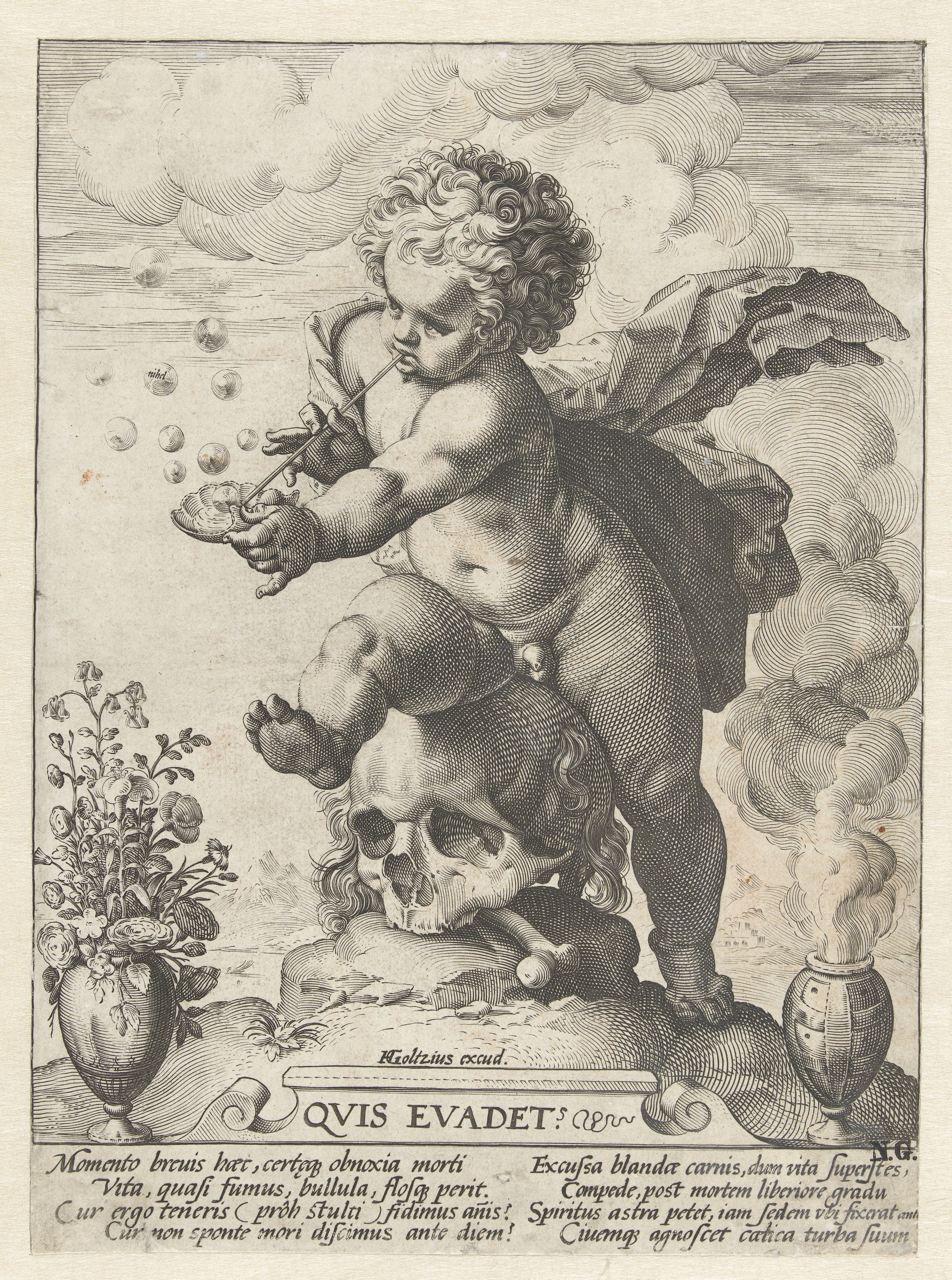 caption: ‘QVIS EVADET?’ monogram and date: ‘HG / 1594’